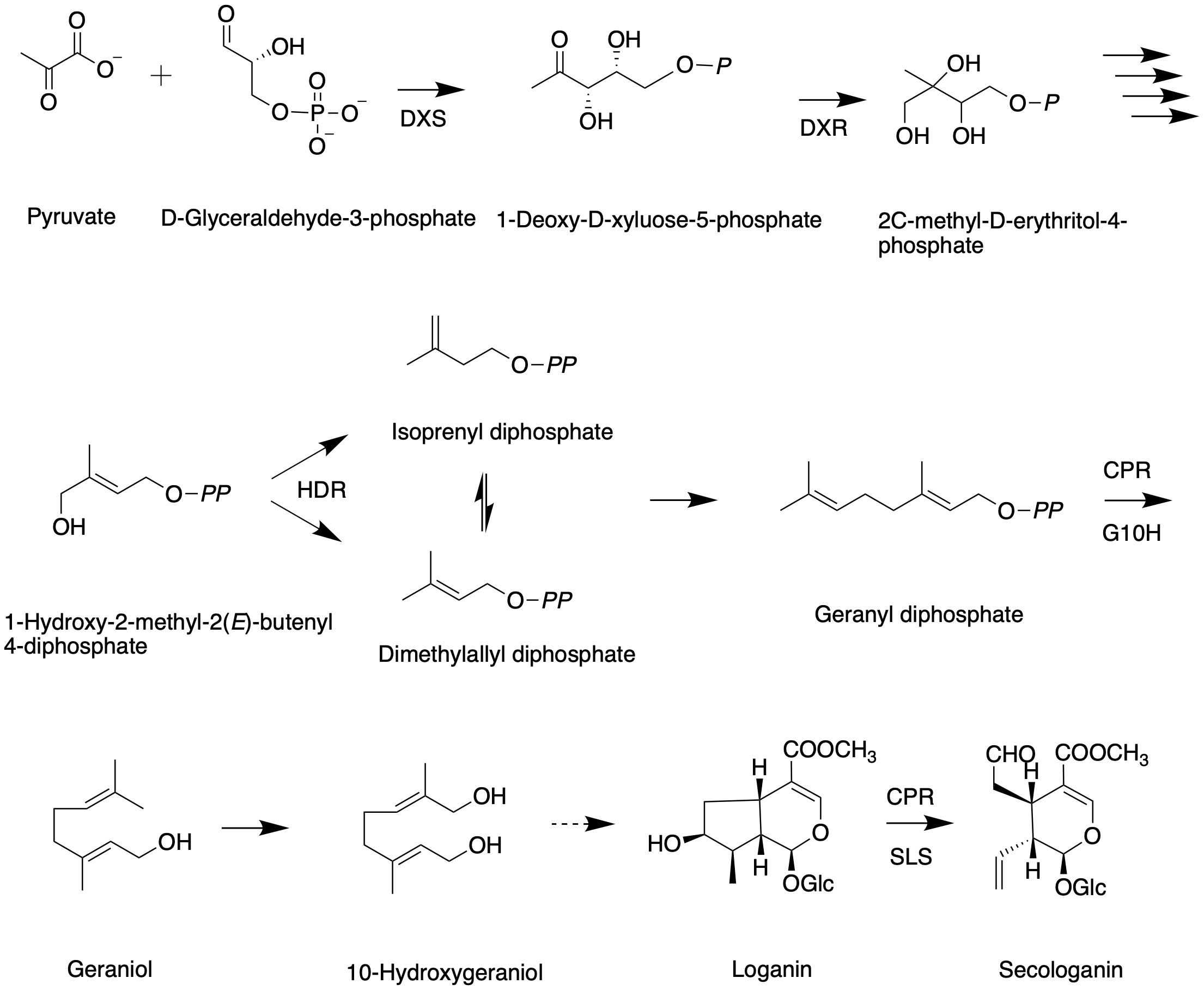 DXS, 1-deoxy-D-xylulose-5-phosphate synthase; DXR, 1-deoxy-D-xylulose-5-phosphate reductoisomerzase; HDR, 1-hydroxy-2-methyl-2(E)-butenyl-4-diphosphate reductase; G10H, geraniol 10-hydroxylase; SLS, secologanin synthase; CPR, NADPH:cytochrome P450 reductase; P, phosphate group; PP, diphosphate group. The dotted arrow indicates that multiple enzymatic steps are involved in the pathway leading to loganin from 10-hydroxygeraniol.[1]